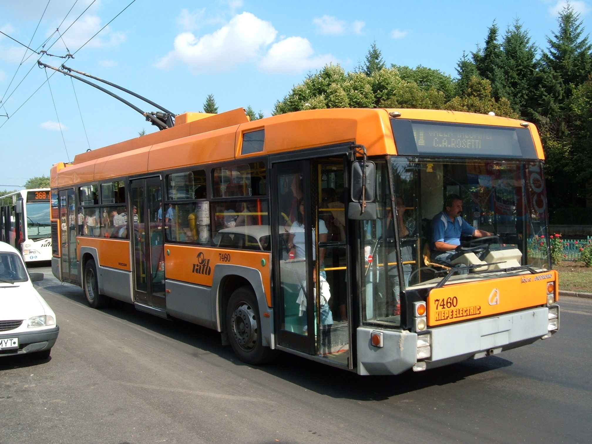 Public trolleybus in Bucharest, Romania (Rocar 812E type). Year built 1998. RATB București company.